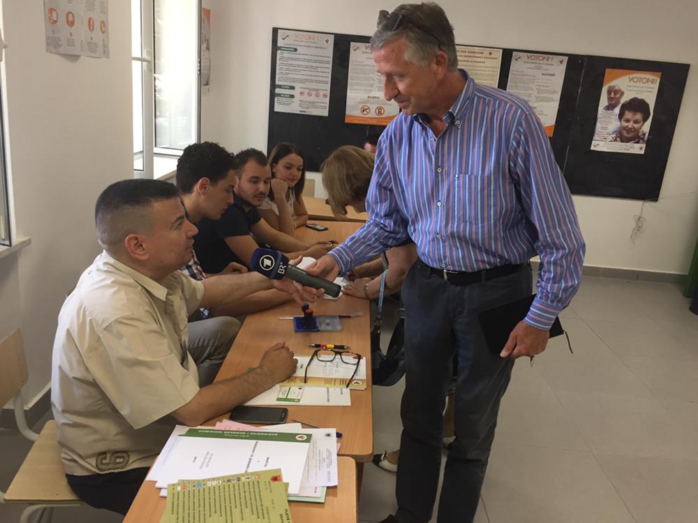 ARD correspondent Clemens Verenkotte interviewing election staff in Tirana on June 25, 2017